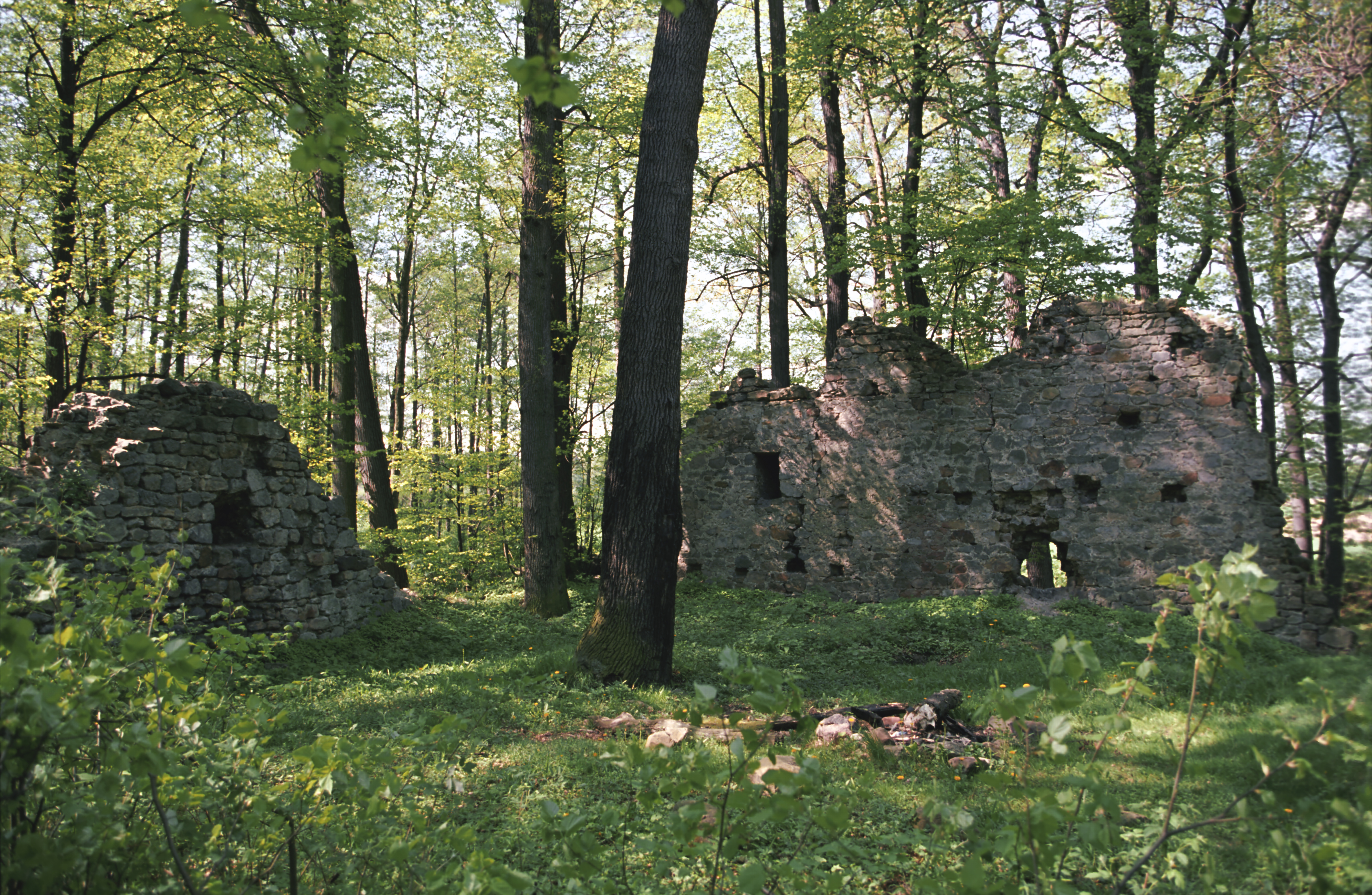 Poland, Warta Bolesławiecka Castle